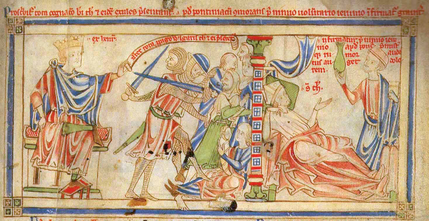 Left:Henry II banishes all Thomas Becket's people. Right: Becket lies sick at Pontigny Abbey, after excessive fasting.